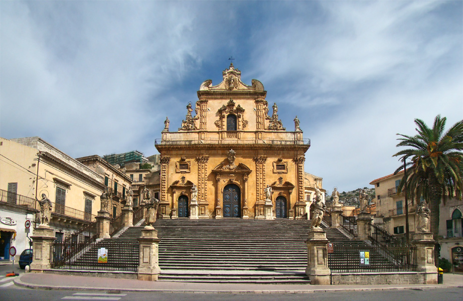 Church of San Pietro, Modica, Sicily, Italy.